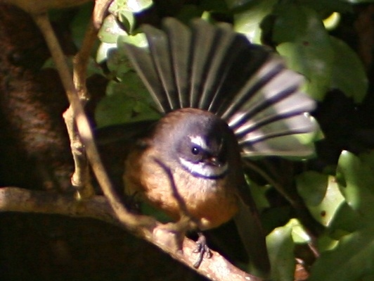 New Zealand fantail or Pied fantail showing fanned tail. Karori sanctuary, Wellington, New Zealand.